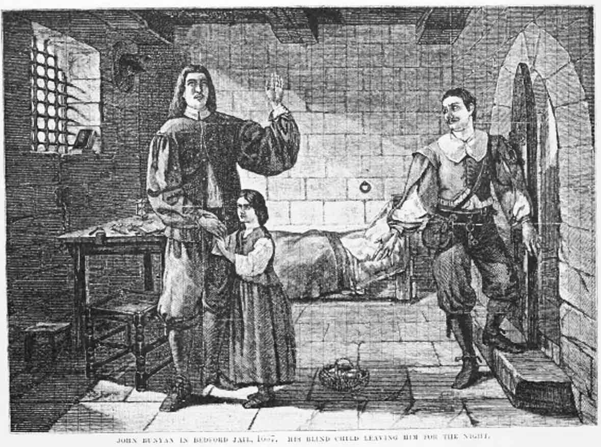 From: The Baptist encyclopaedia : a dictionary ... of the general history of the Baptist denomination in all lands; with numerous biographical sketches of distinguished American and foreign Baptists, and a supplement; Cathcart, William; Philadelphia : Everts; 1881